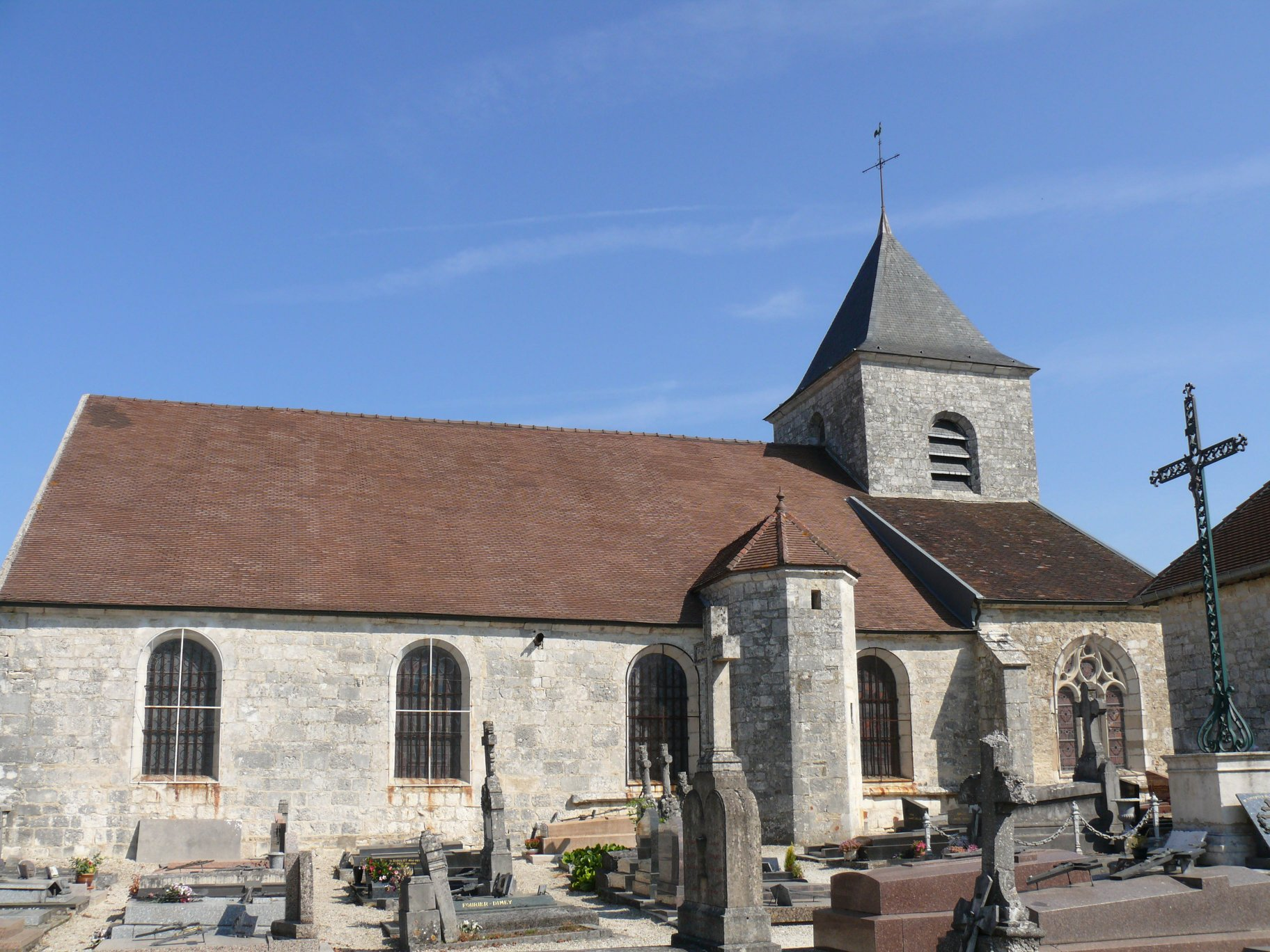 Our Lady of the Assumption's church of Colombey-les-Deux-Églises (Haute-Marne, Champagne-Ardenne, France).